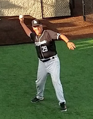 Milwaukee Milkmen personnel in the bullpen in August 2019